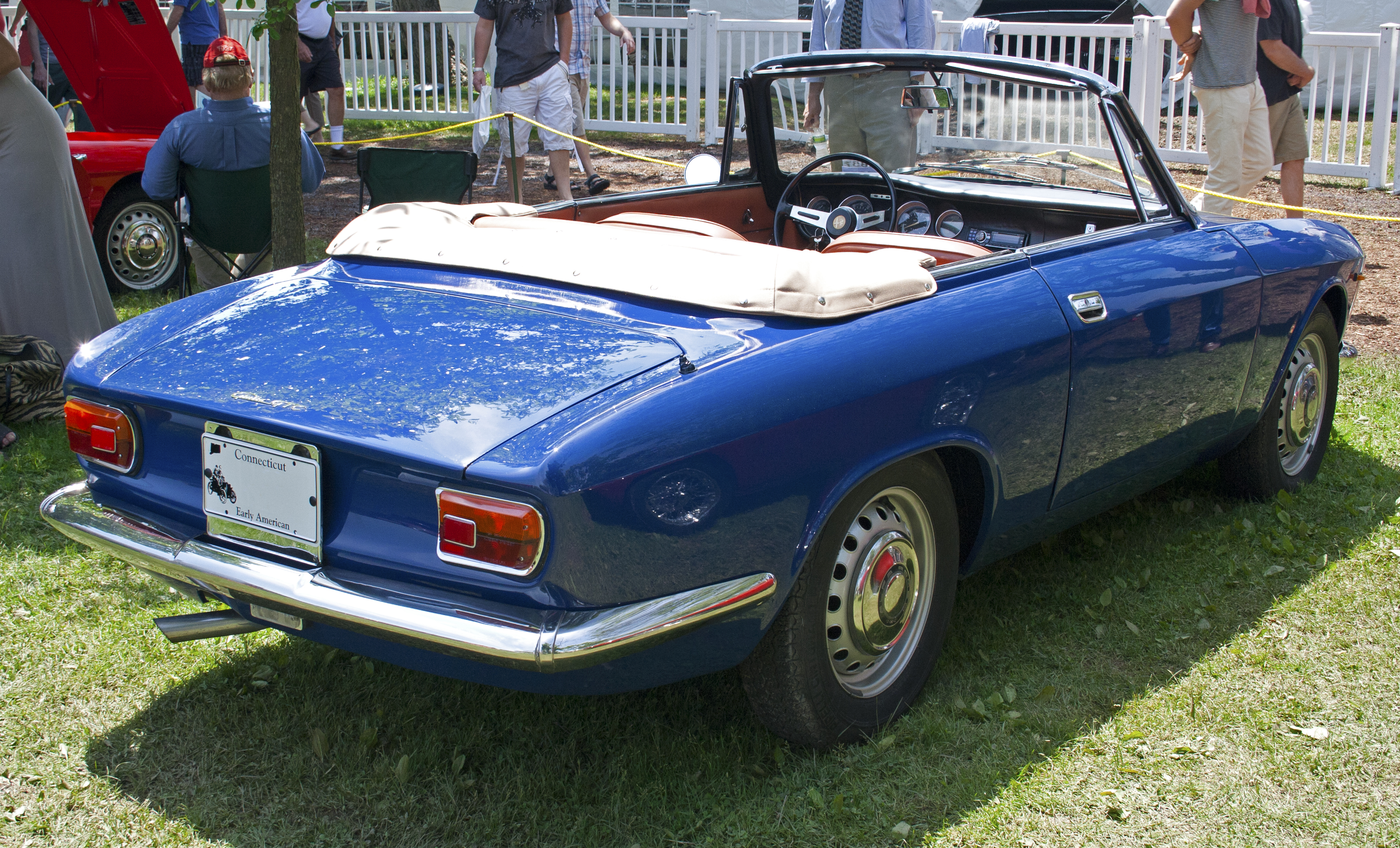 1966 Alfa Romeo Giulia GTC Spider at the 2012 Greenwich Concours d'Elegance.